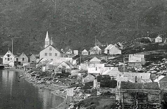 Okak Moravian Settlement, n.d. Okak was established in 1776. This photo was taken sometime before 1919. Centre for Newfoundland Studies Archives (Coll-137, 22.03.001), Memorial University of Newfoundland Library, St. John's, Newfoundland.